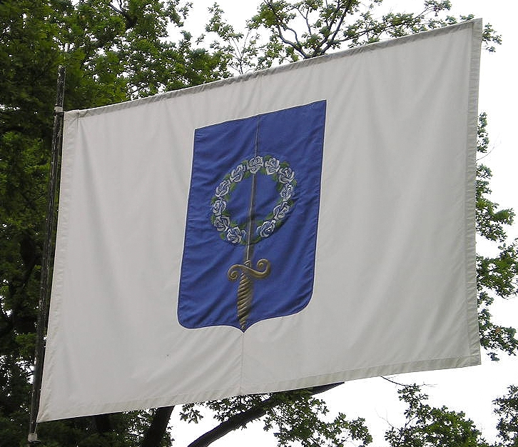 Standard of the Tsar in Aleksandriâ (Alexandria park).